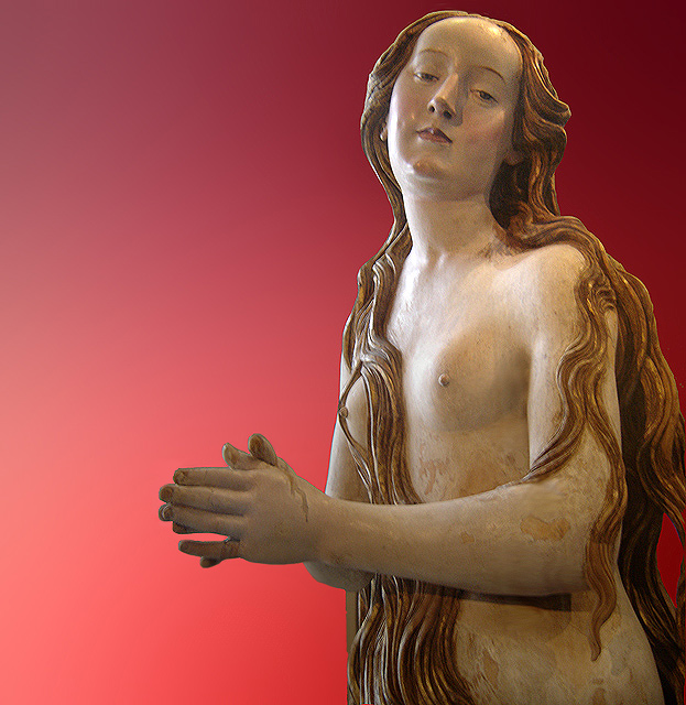 Mary Magdalene. Lime tree wood and polychromy, 16th century. Part of the feet were restored in the 19th century.